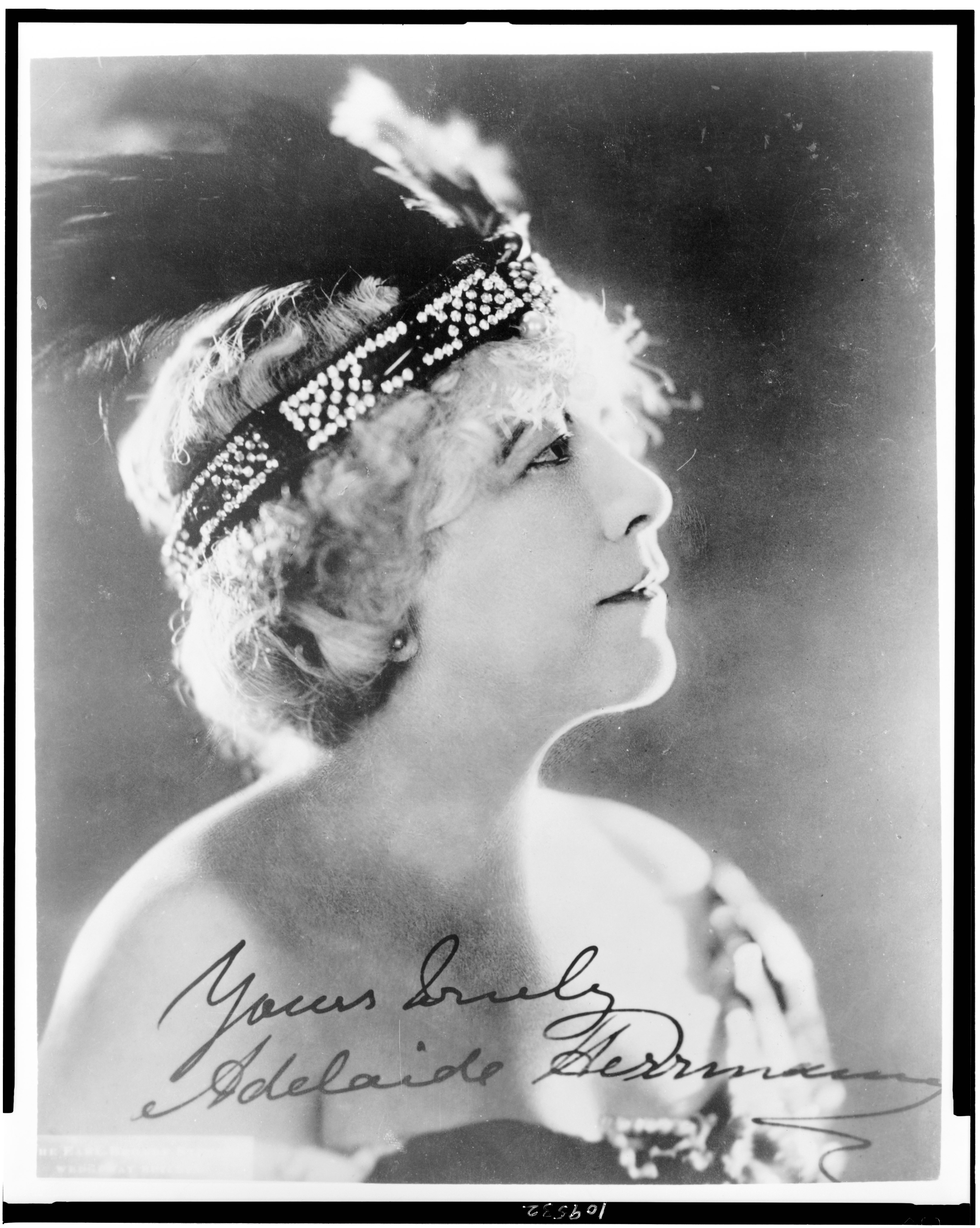 Title: Adelaide Herrmann, head-and-shoulders portrait, facing right Abstract/medium: 1 photographic print.